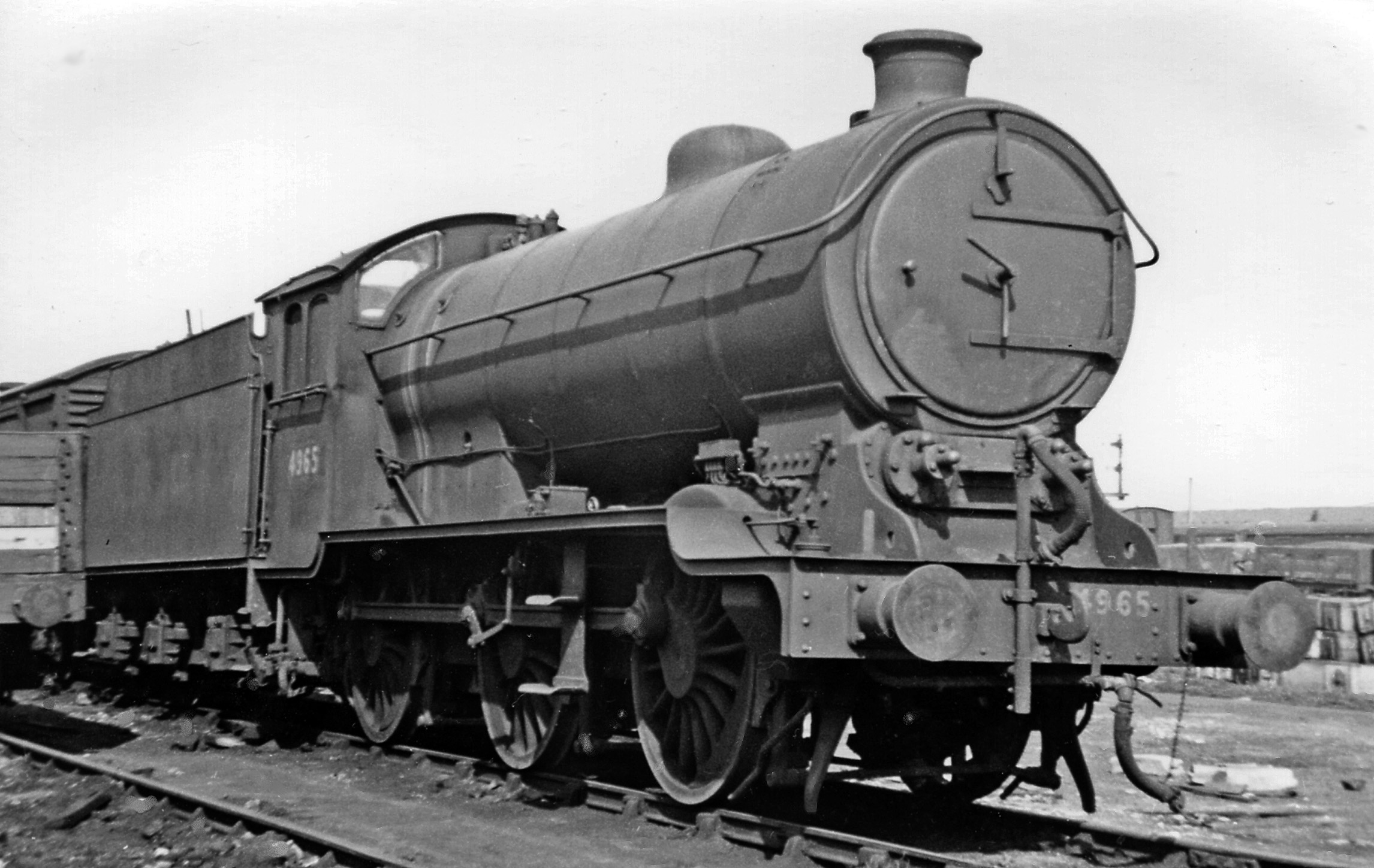 A J39 0-6-0 on Grantham Shed. There were 289 of these large 0-6-0's designed by Sir Nigel Gresley for the LNER: they were generally useful for freight, and at times for passenger, work, throughout the system. No. 4965 was one of several allocated to Grantham Shed.